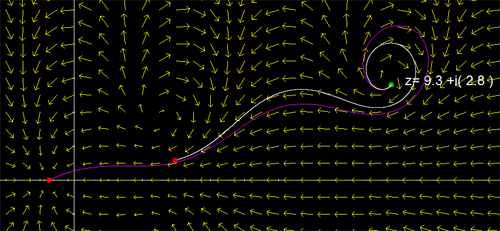 Contours generated by iterating two evolution functions in the vector field f(z) = -Cos(z).